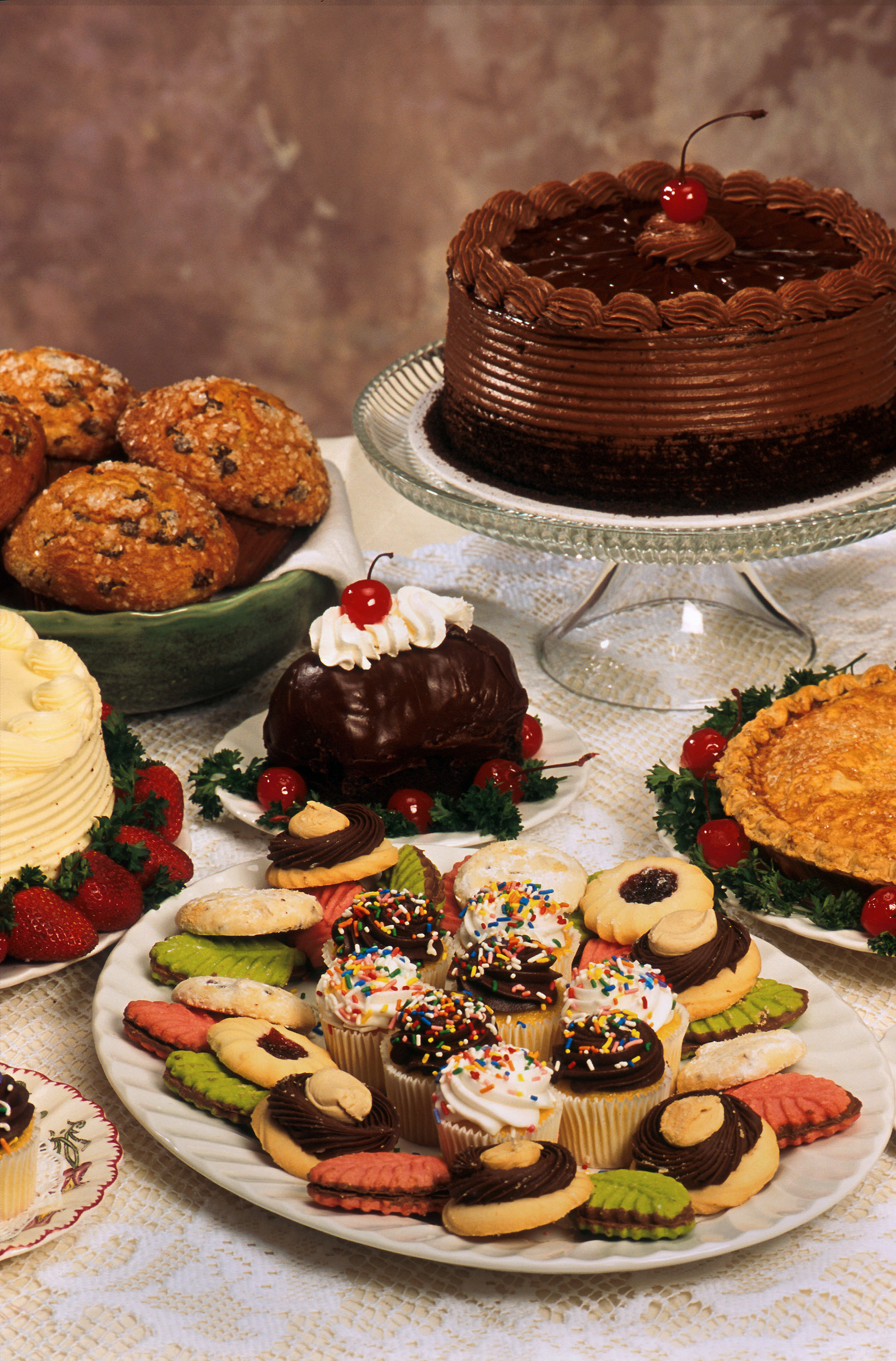 Bakery products—cakes, cookies, pies, and other pastries.